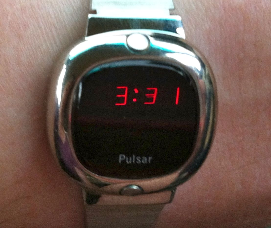 A Pulsar Touch/Command Ladies' LED watch, from around 1976